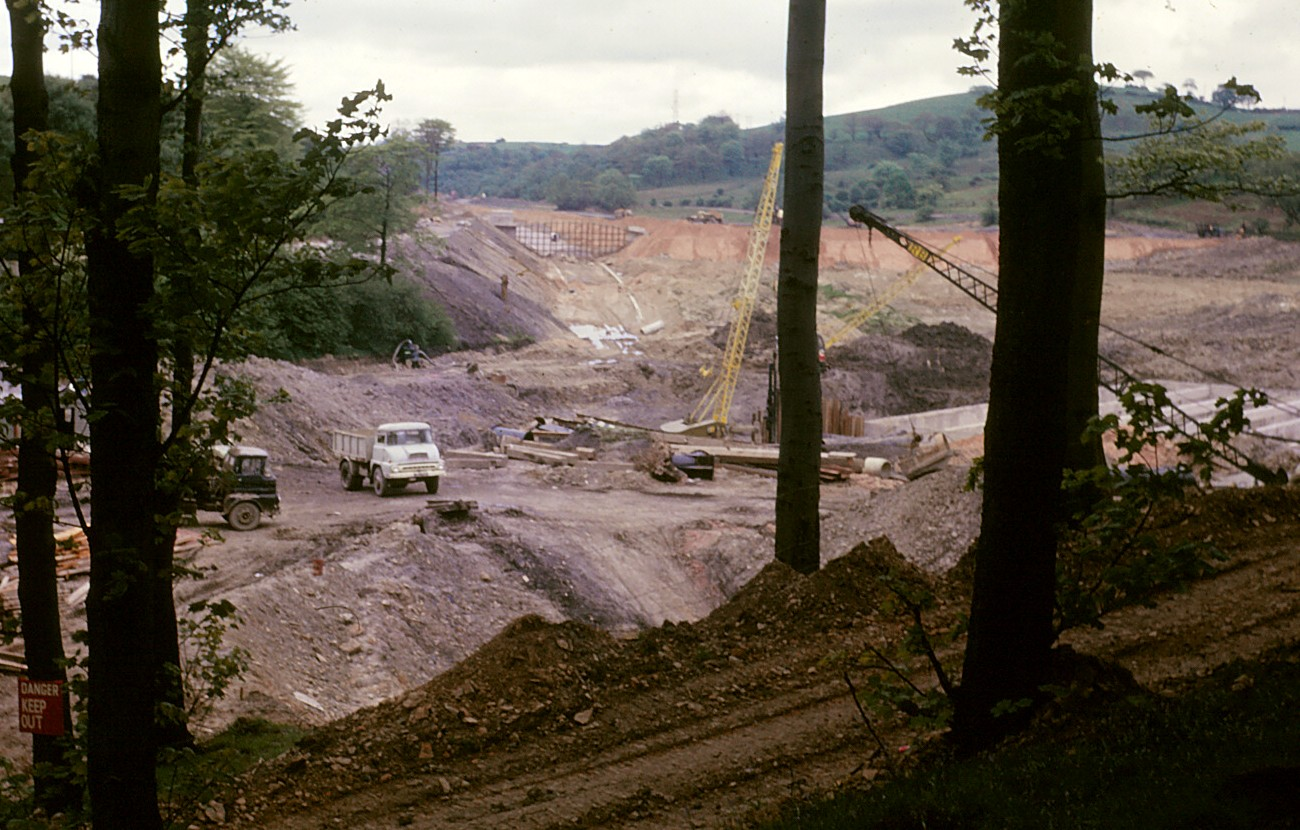 Work in progress for new railway line through Bathpool Park, Kidsgrove c1965, seen from south portal of new tunnel